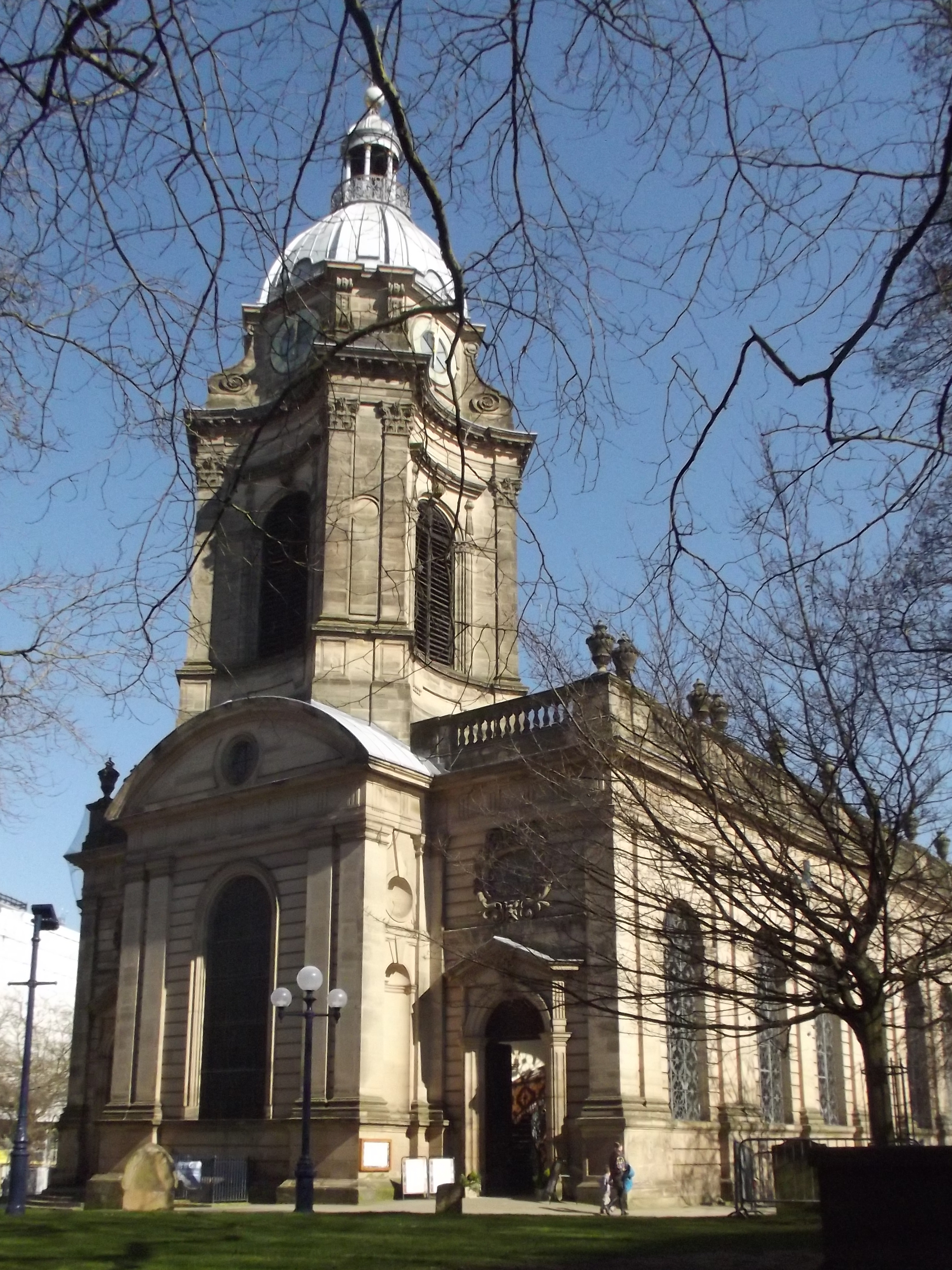 St Philip's Cathedral in Birmingham. Brilliant March 2014 sunshine.